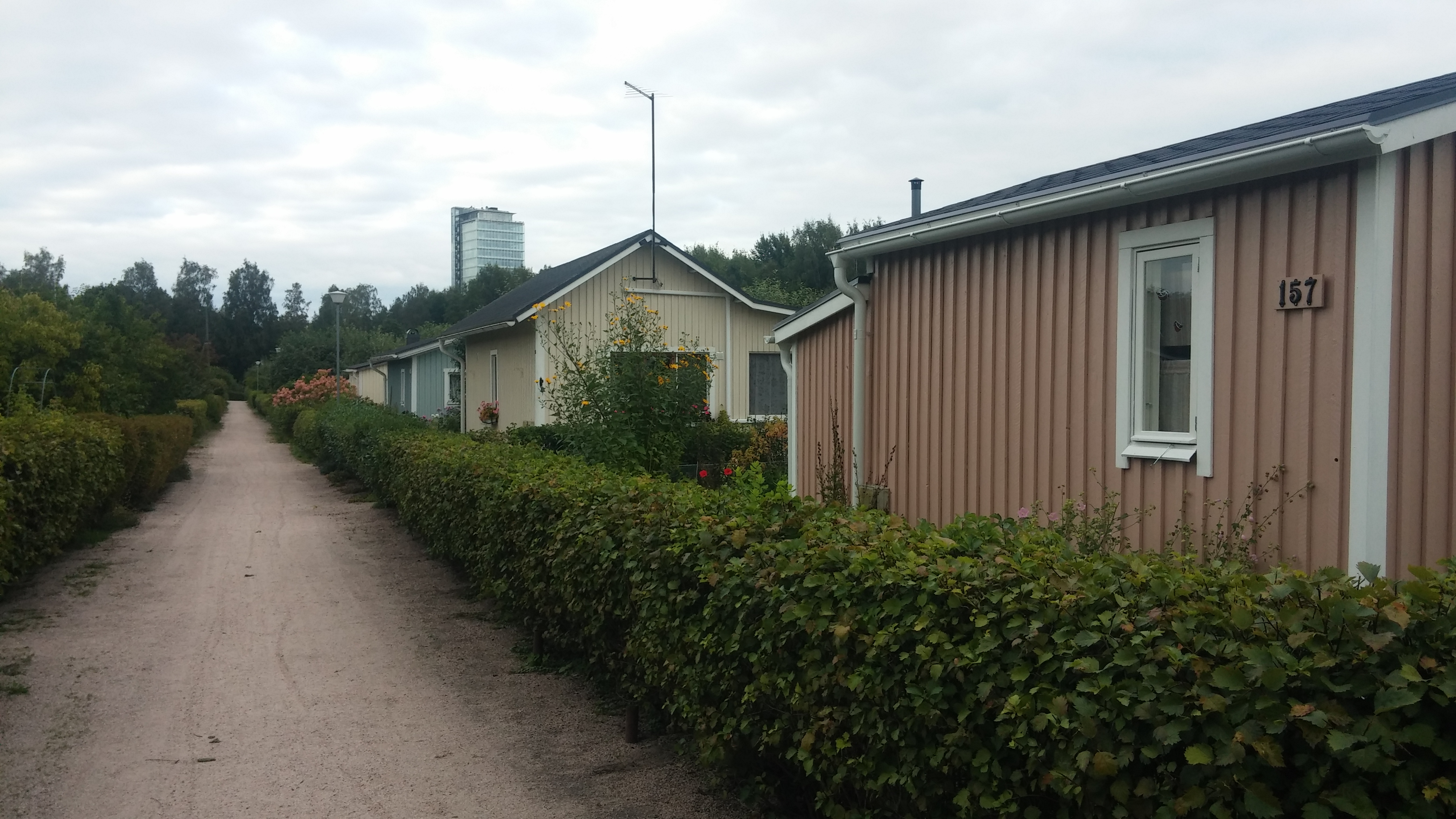 Talin siirtolapuutarha is an allotment in Helsinki, Finland.